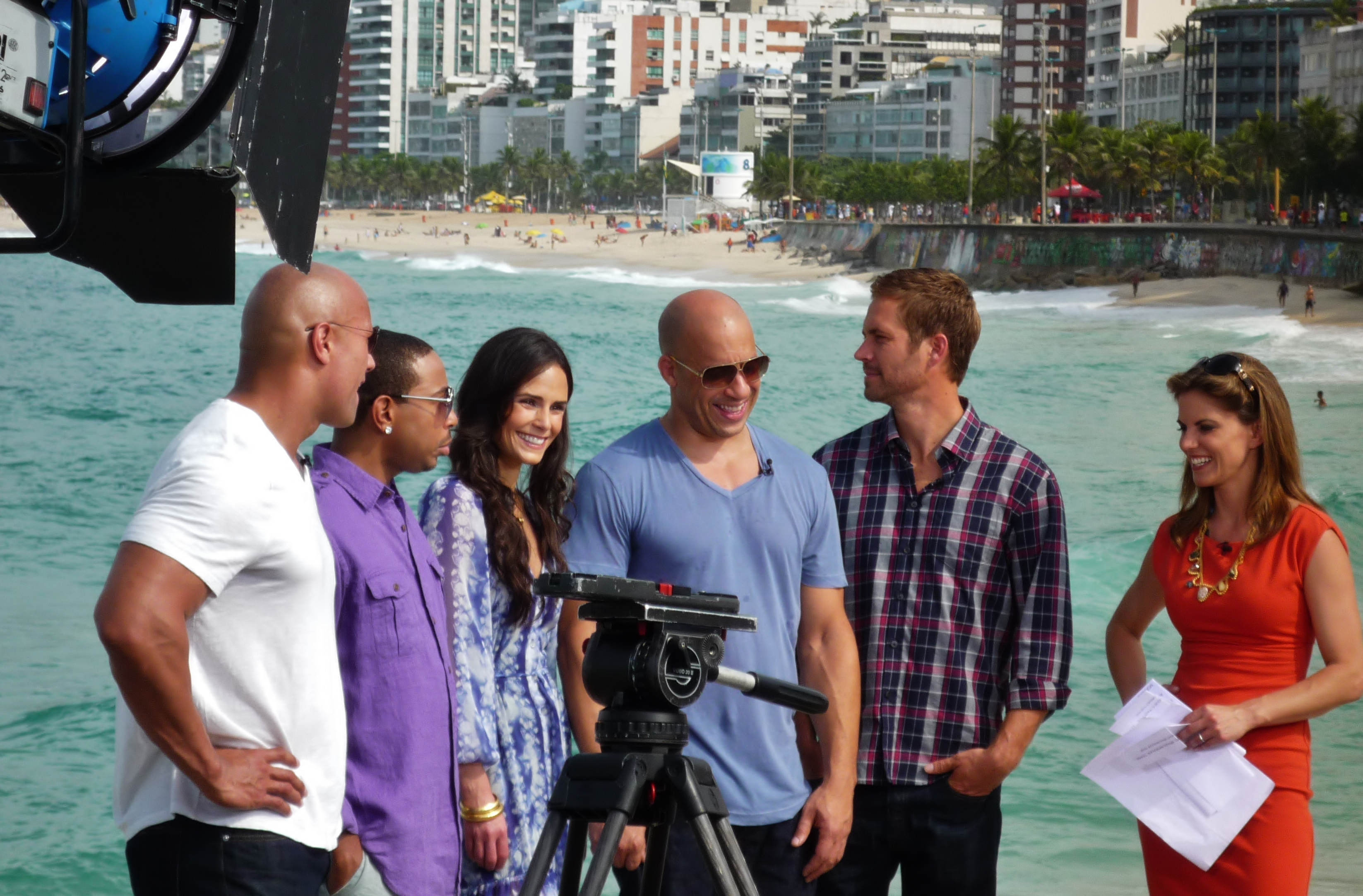 Fast Five cast (Paul Walker, Vin Diesel, Jordana Brewster, Ludacris & the Rock: Dwayne Johnson) with Natalie Morales for NBC 'The Today Show'. Photo background shows the eastern end of the Ipanema beach in Rio de Janeiro, Brazil, with lifeguard station #8 behind Vin Diesel.